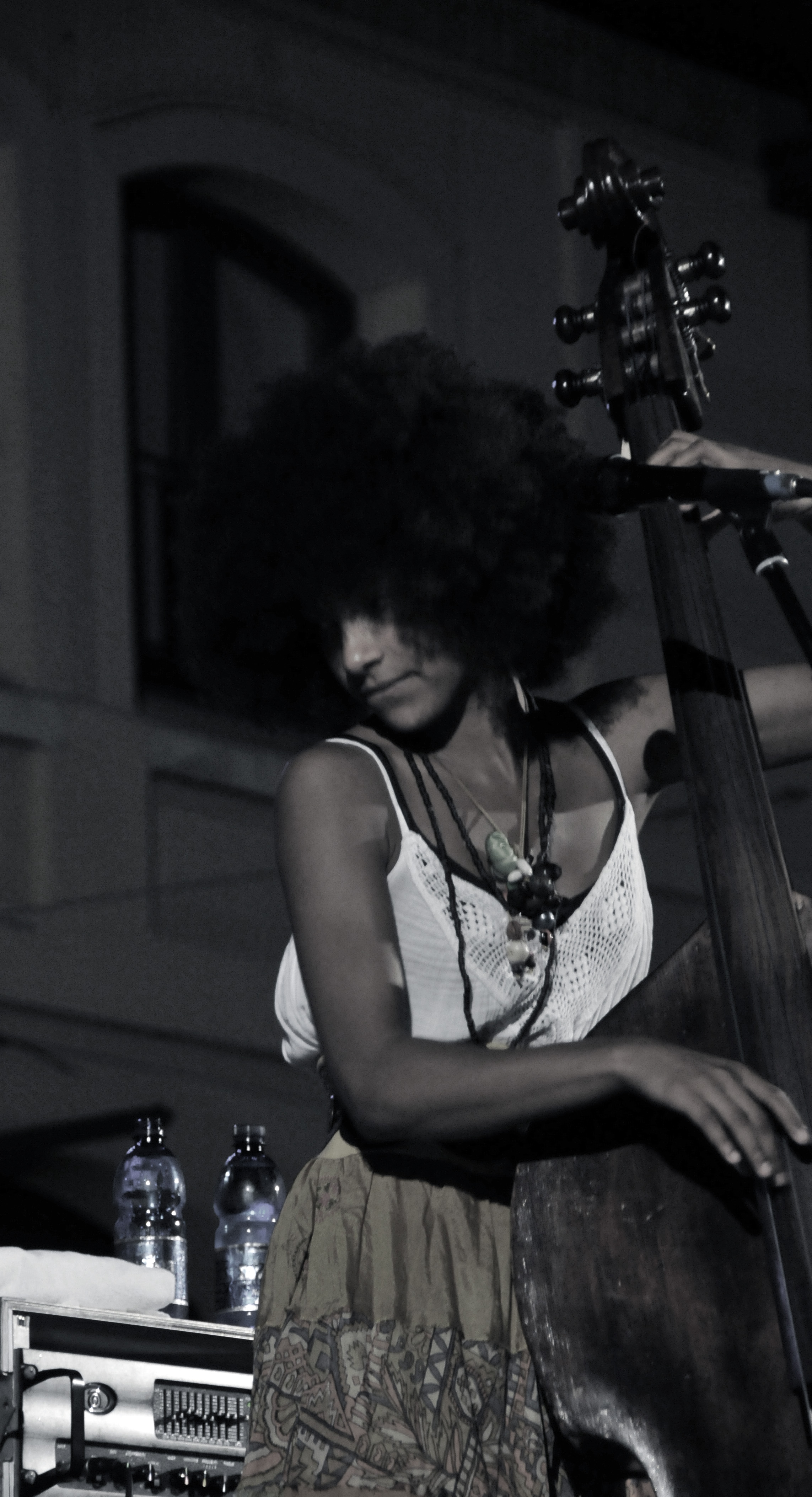 Esperanza Spalding by Alessandra Freguja